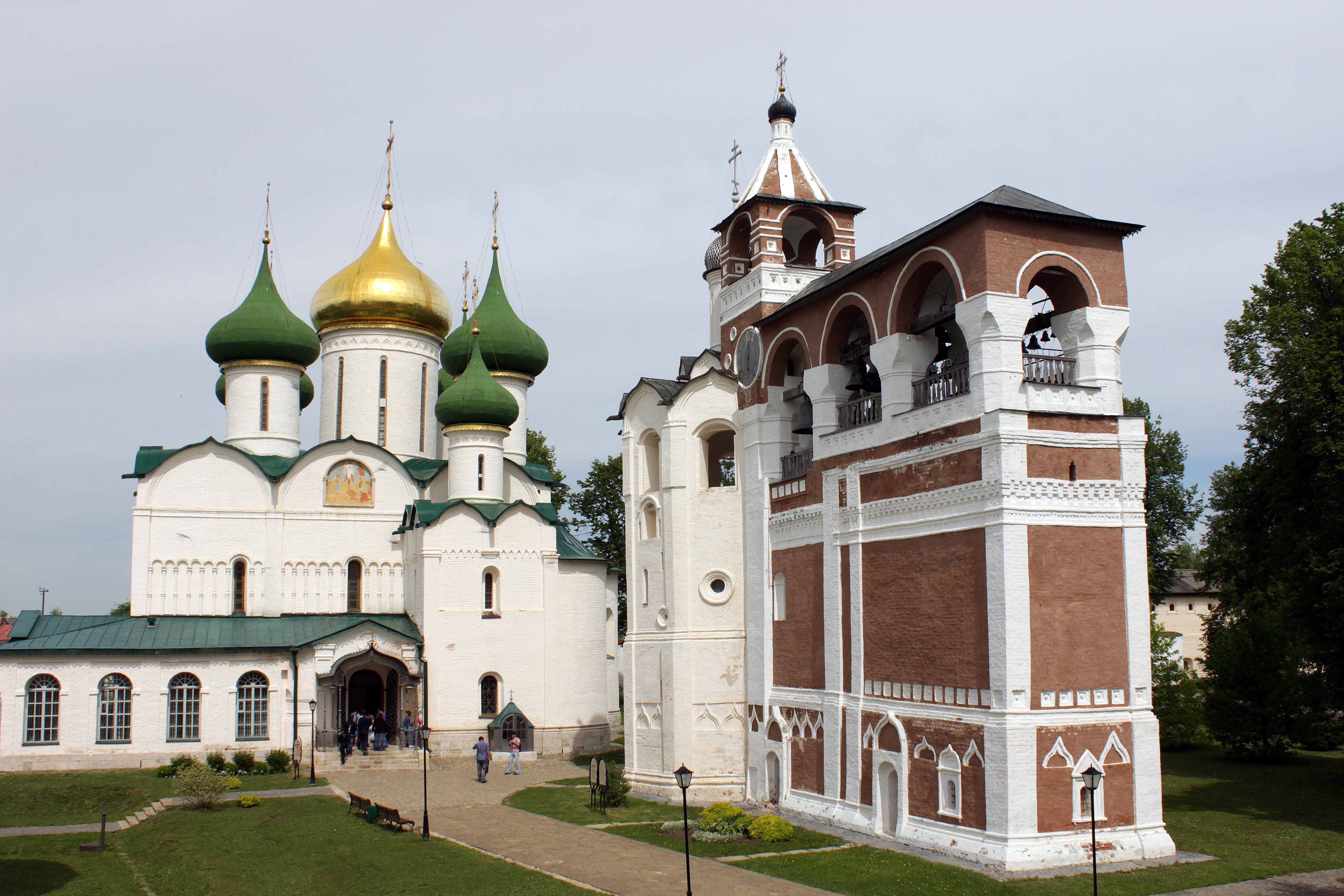 Spaso-Preobrazhensky Cathedral (1594), Suzdal.